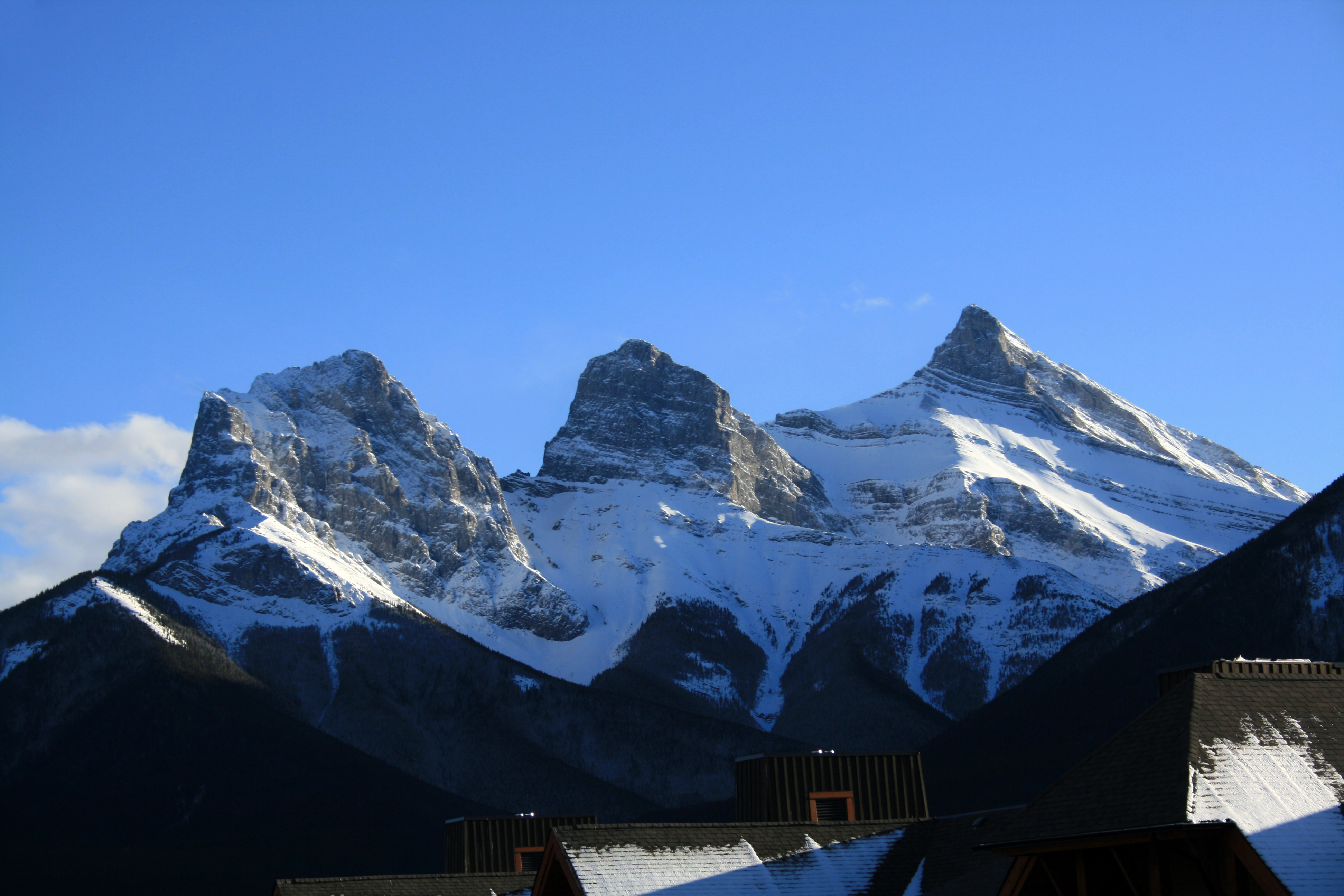 This breathtaking view of the famous Canadian Rockies Three Sisters Mountain Range is taken from Canmore